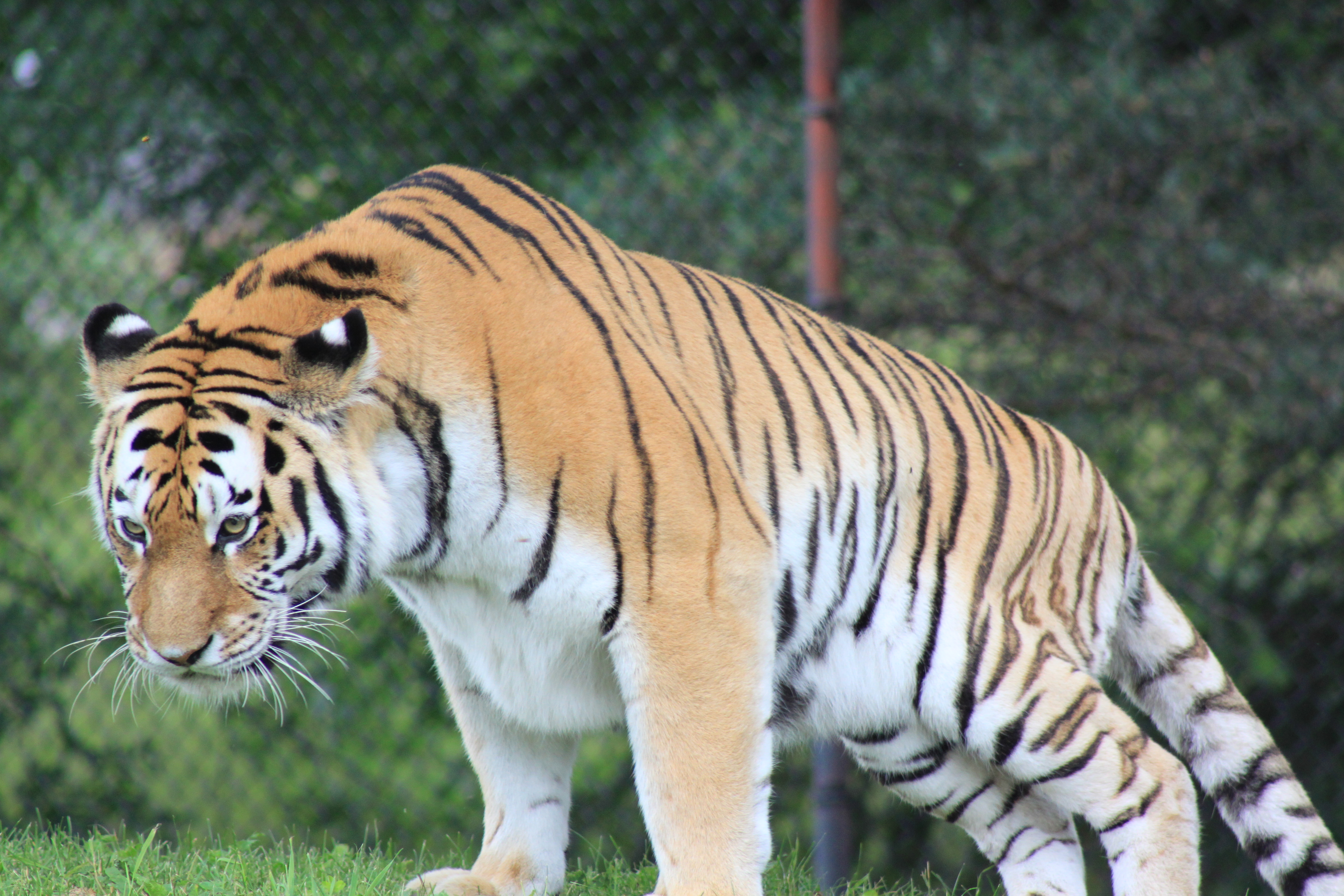 Siberian Tiger